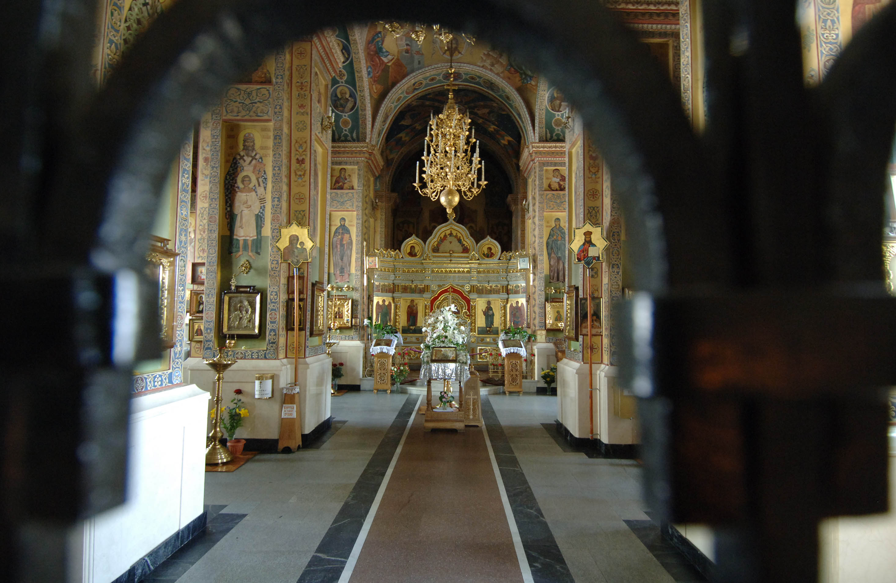 INTERIOR VIEW OF ST. MARY MAGDELINE CHURCH BUILT IN 1847 IN THE OLD RUSSIAN ORTHODOX STYLE